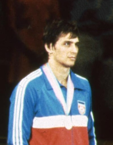 Jožef Tertei at the 1984 Olympics held in Los Angeles. From the Olympics Collection (COLL/1515) at the Marine Corps Archives and Special Collections OFFICIAL MARINE CORPS PHOTOGRAPH